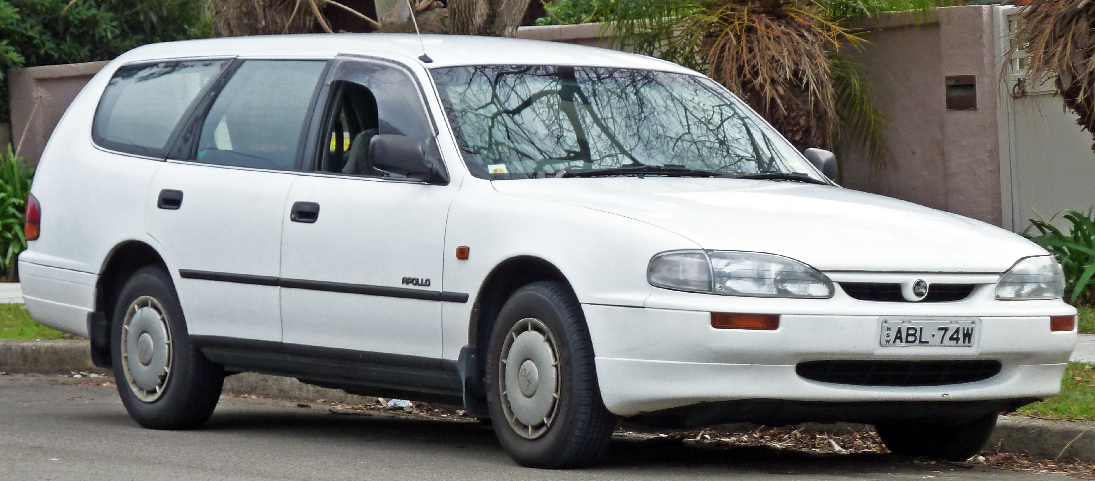 1993 Holden Apollo (JM) SLX station wagon. Photographed in Woolooware, New South Wales, Australia.